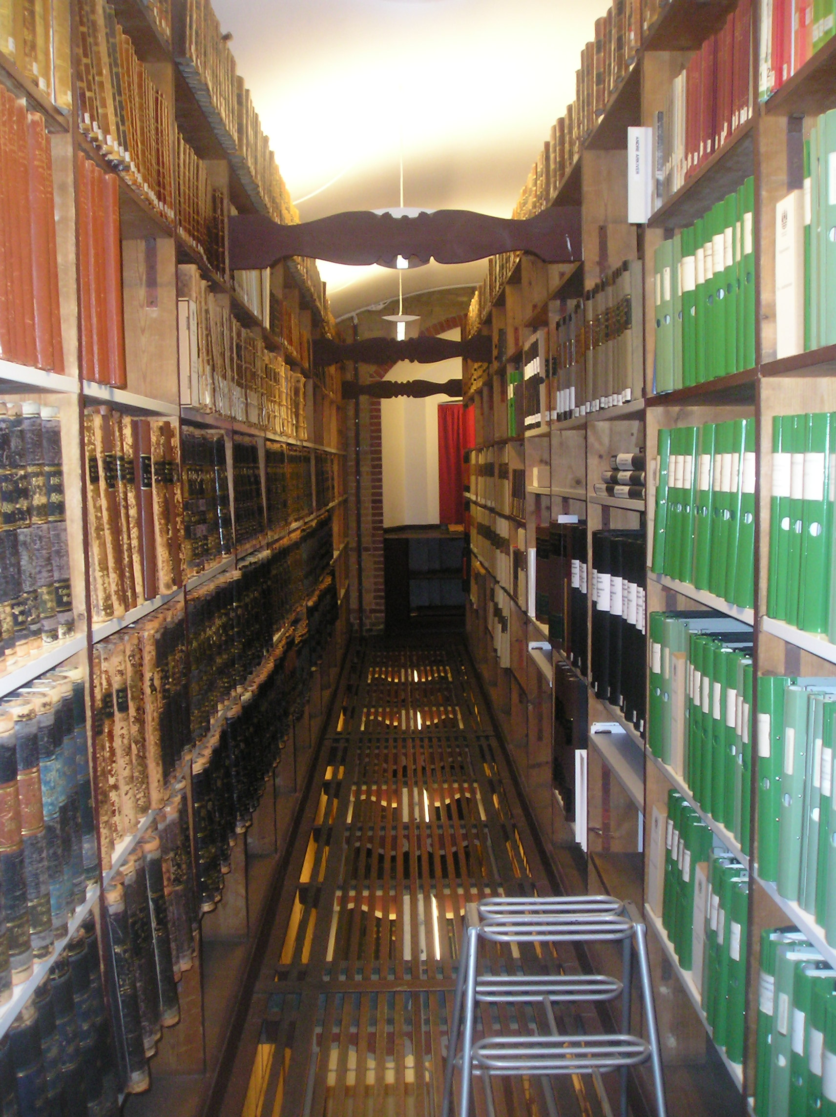 Københavns Stadsarkiv (Copenhagen City Archive) at Kulturnatten (night of culture) in 2008. Part of the archive